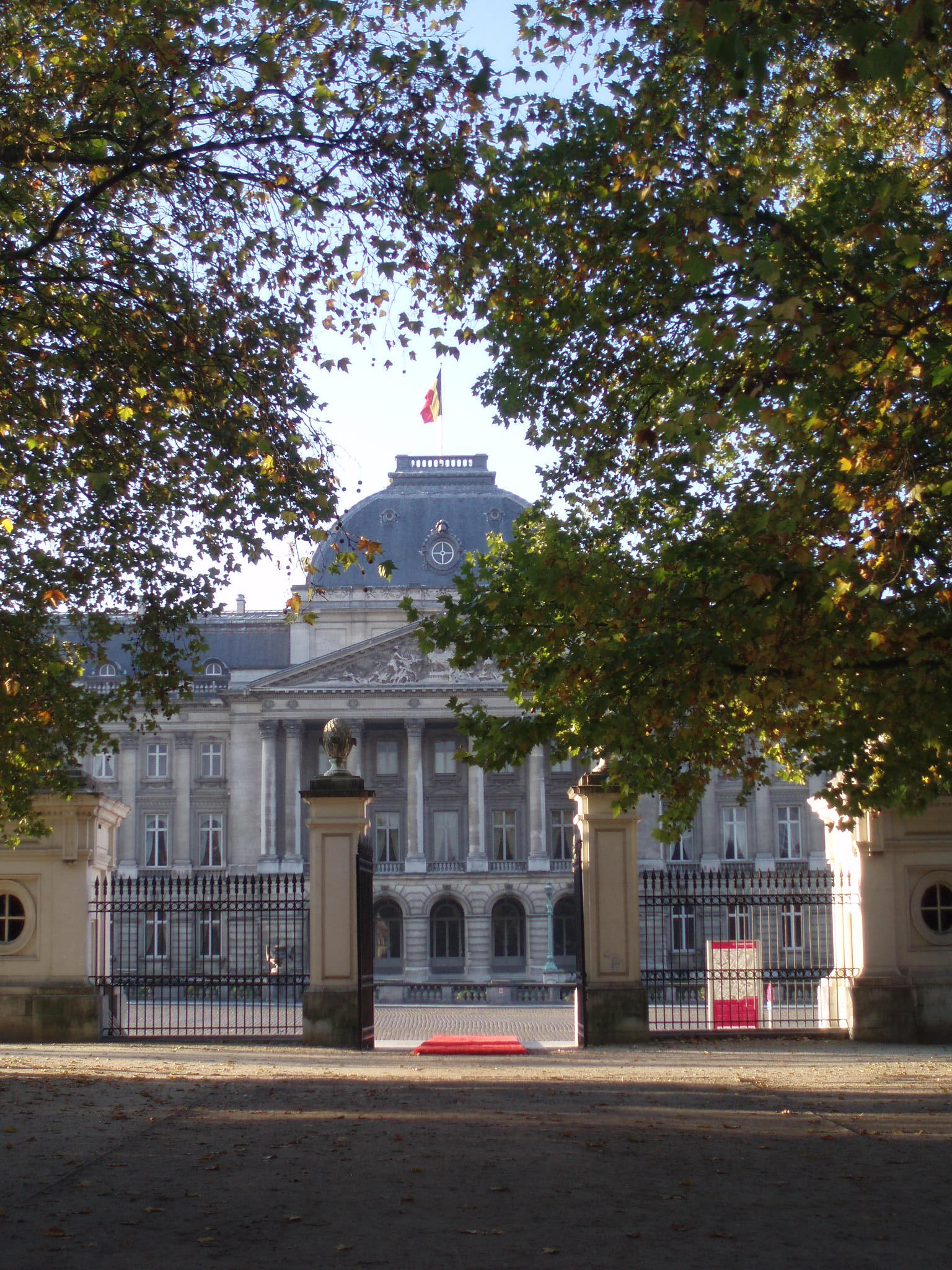 Royal Palace, Brussels, Belgium, seen from the Park